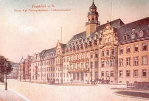 Old Police HQ of Frankfurt am Main, Hesse, Germany in 1914 (Hohenzollernplatz/Platz der Republik/Friedrich-Ebert-Anlage)